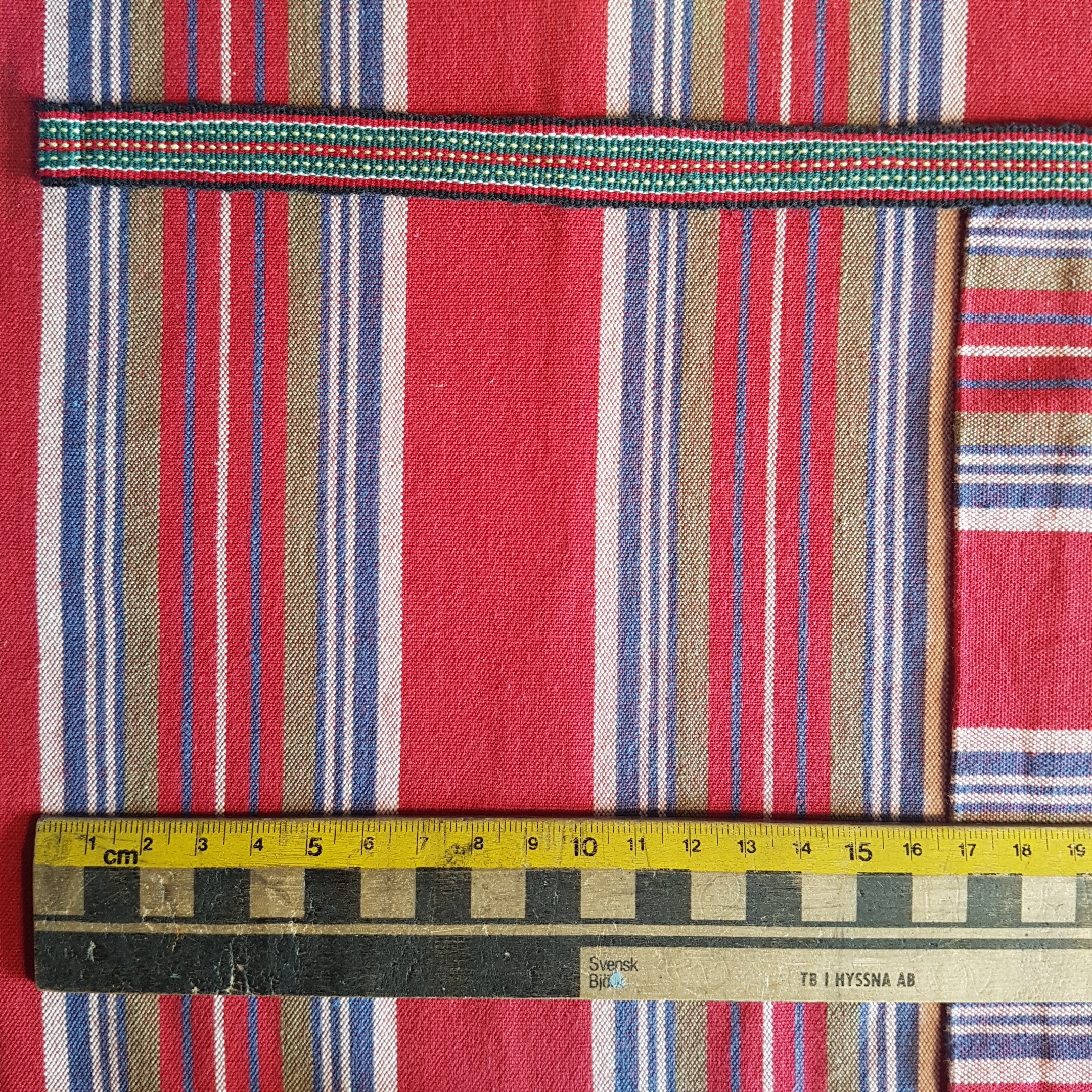 Forshaga-Grava Swedish Folk Costume Apron Weave Pattern Ribbon